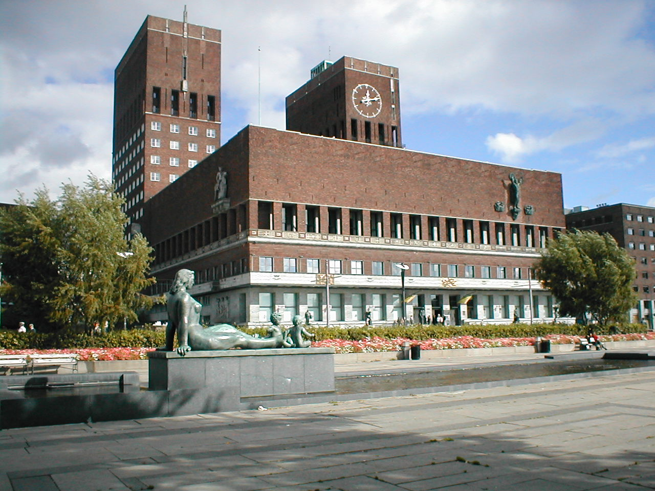 Townhall of Oslo, Norway